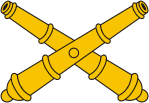 Collar insignia of the Russian armed forces, here emblem branch of service – “Rocket forces and artillery” issue n1924.